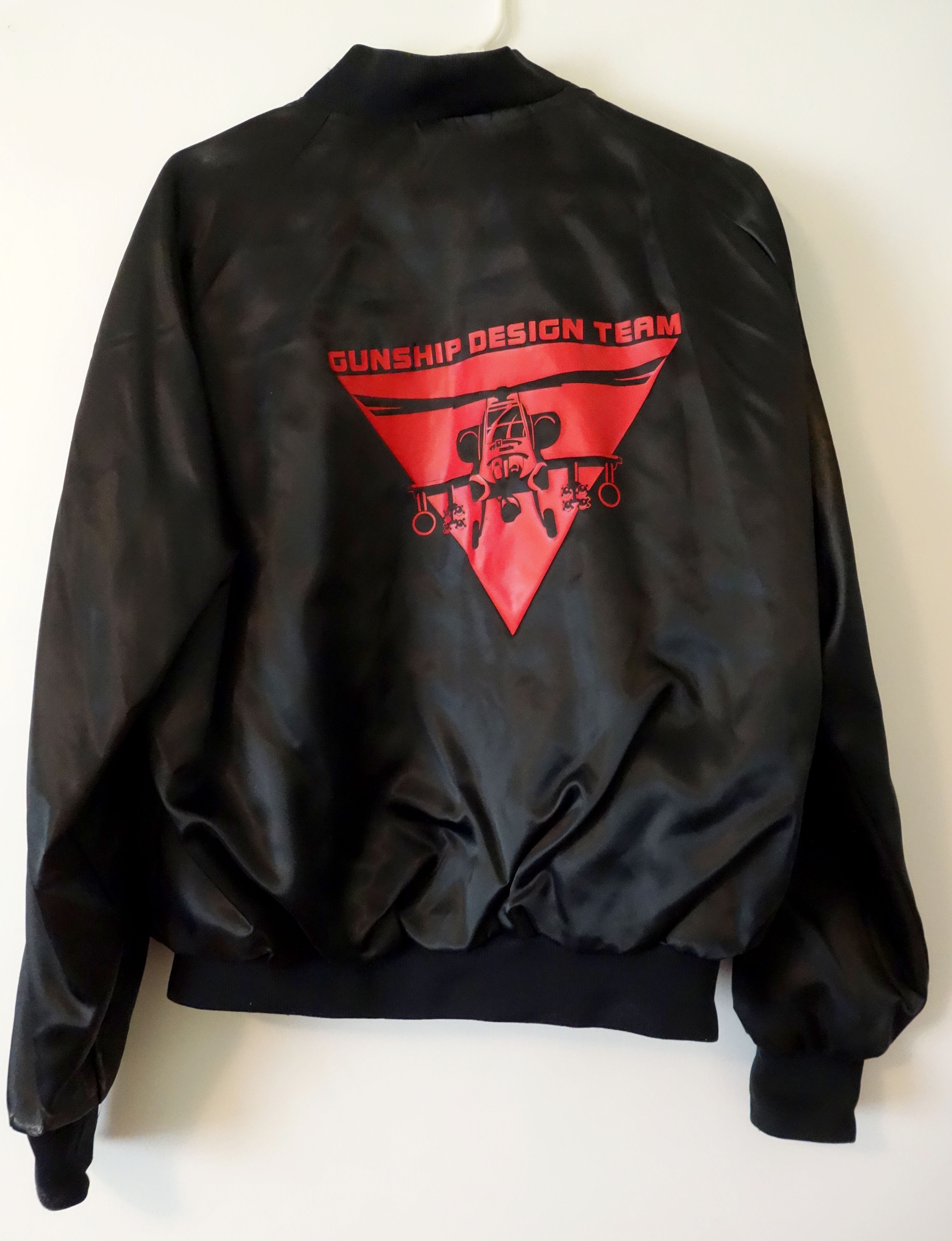 A jacket from when I was on the Gunship Team at Microprose. It's a nice design and it's especially nice that each one has our name printed on it.